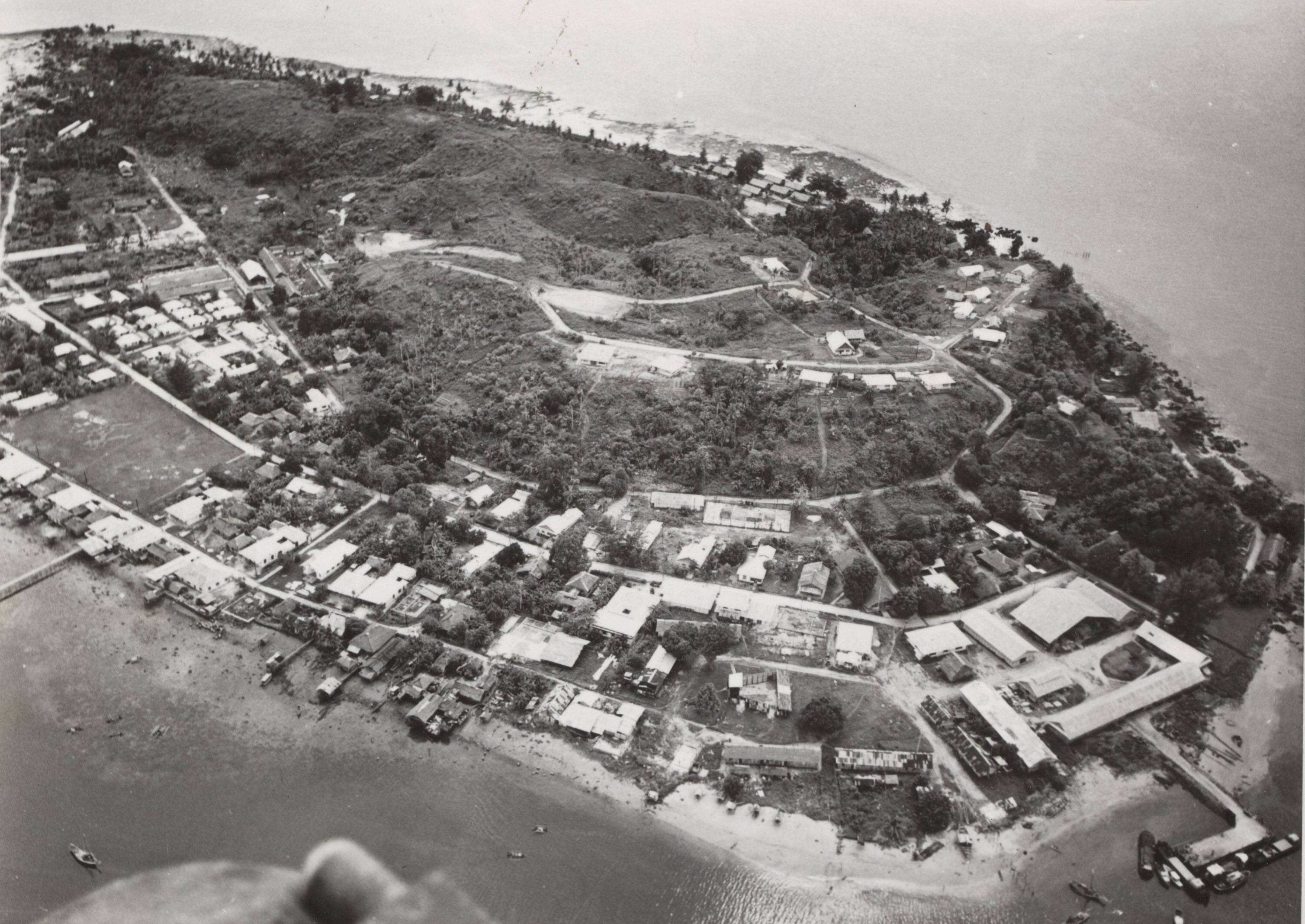 Aerial photo of Doom Island, Sorong, 1955